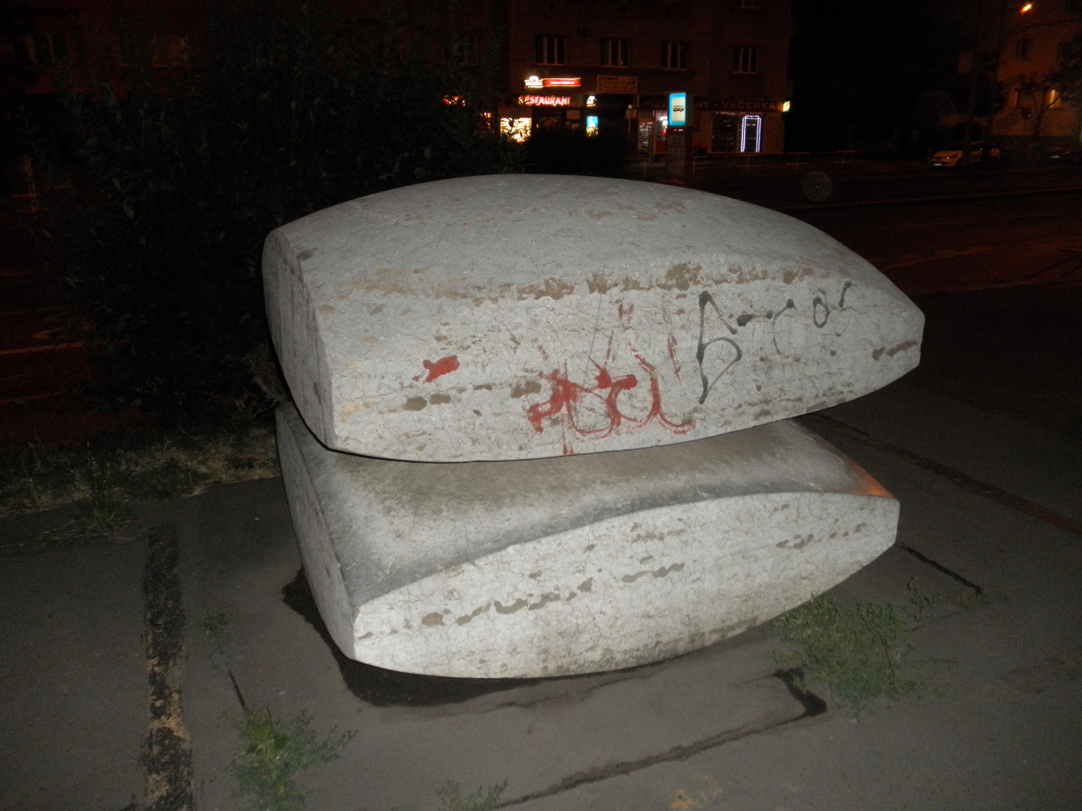 Sculpture Mobilit in 1623/72 Na Pankráci street in Prague. The sculpture was made by Zdeněk Šimek in 1971.